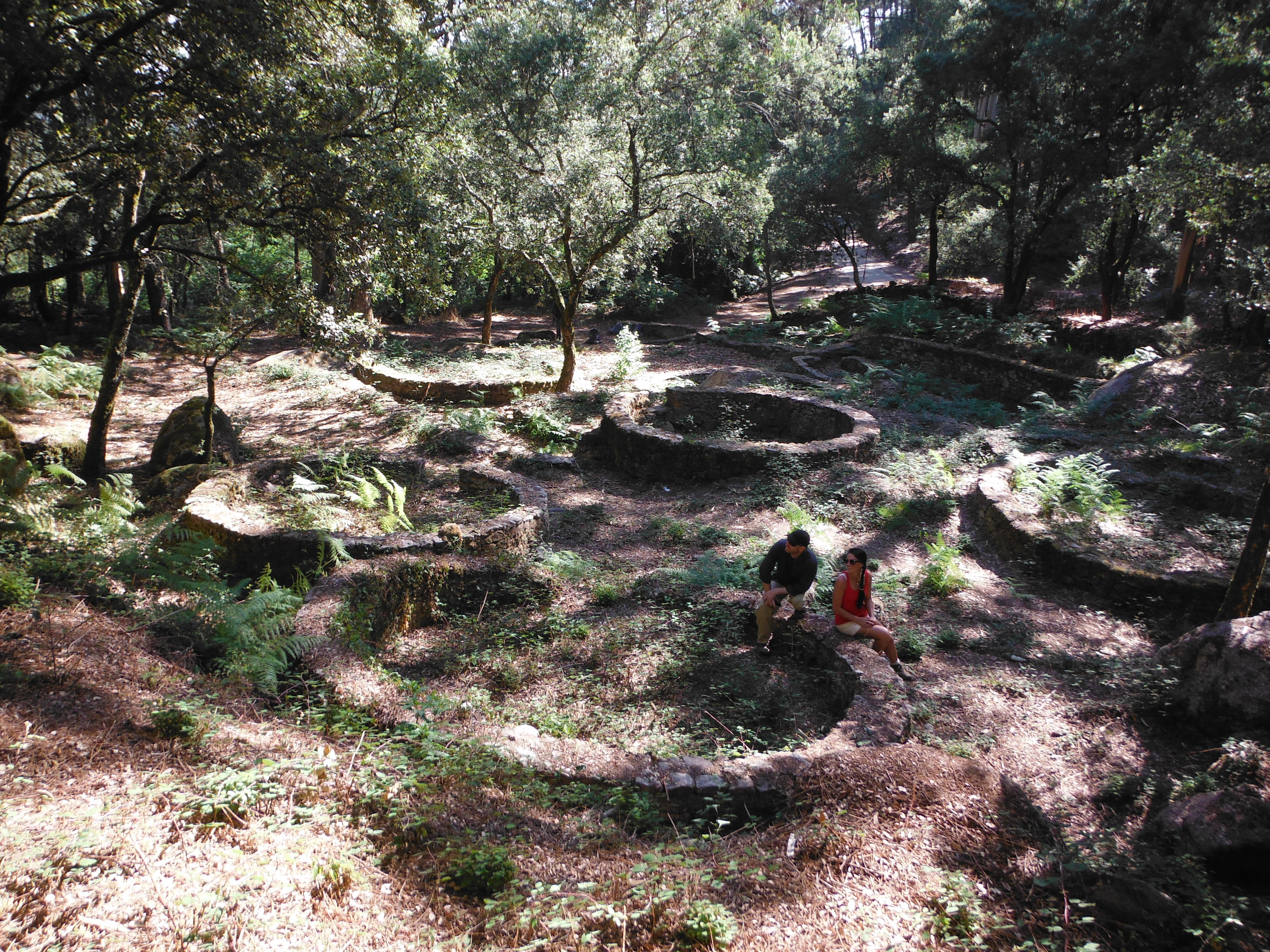 Celtiberian ruins in northern Portugal